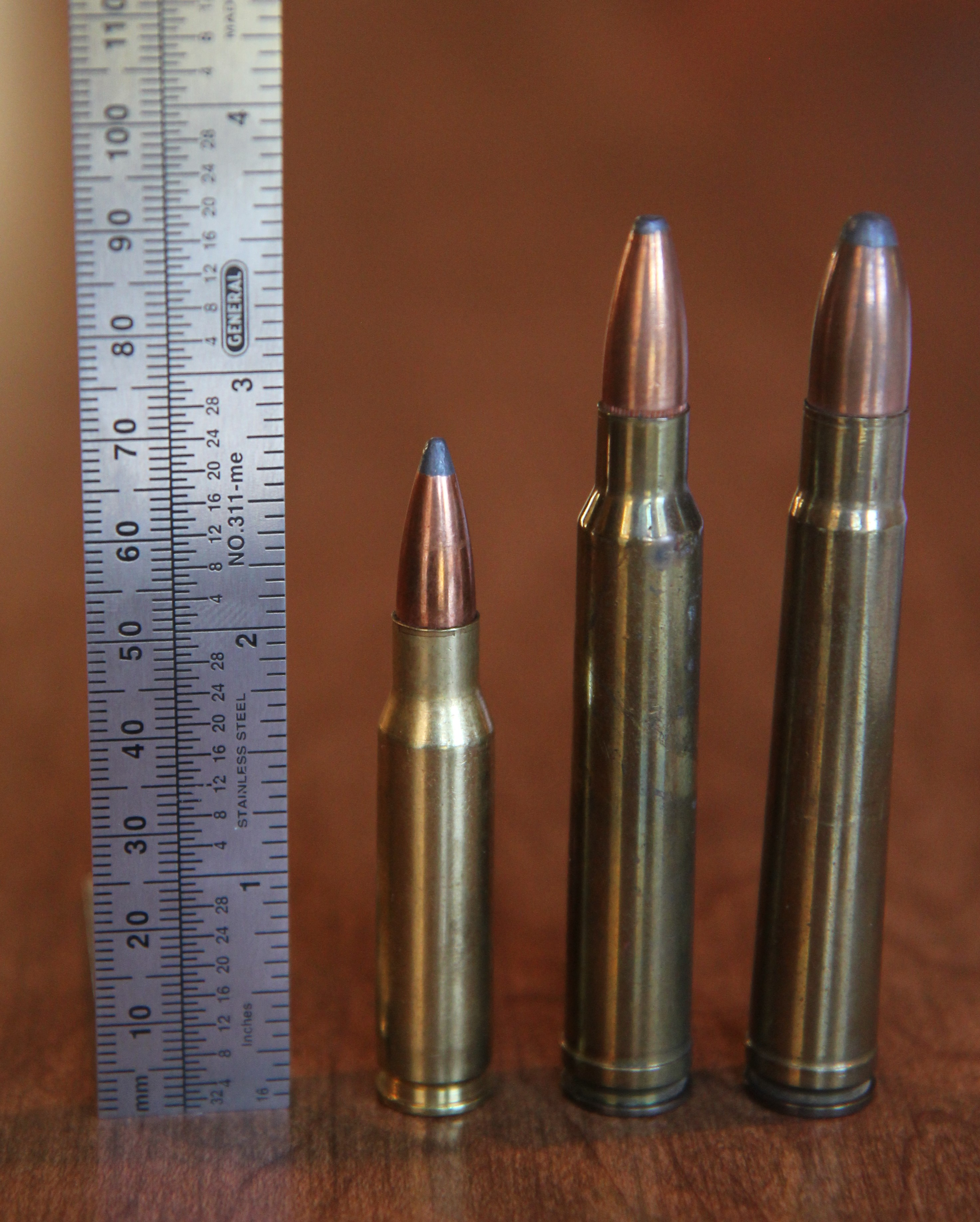 8mm Remington Magnum cartridge (center) beside a metric/imperial ruler with a .308 Winchester cartridge (left) and a .375 Holland & Holland cartridge for comparison.